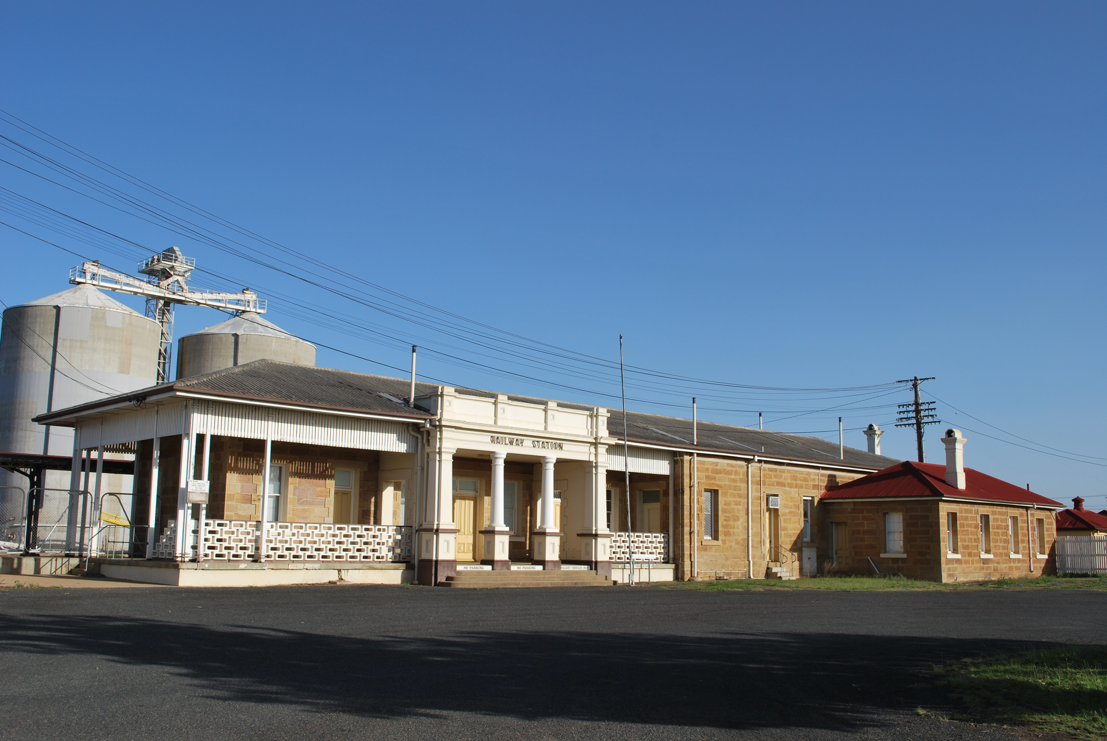 Train station in Warwick, Queensland